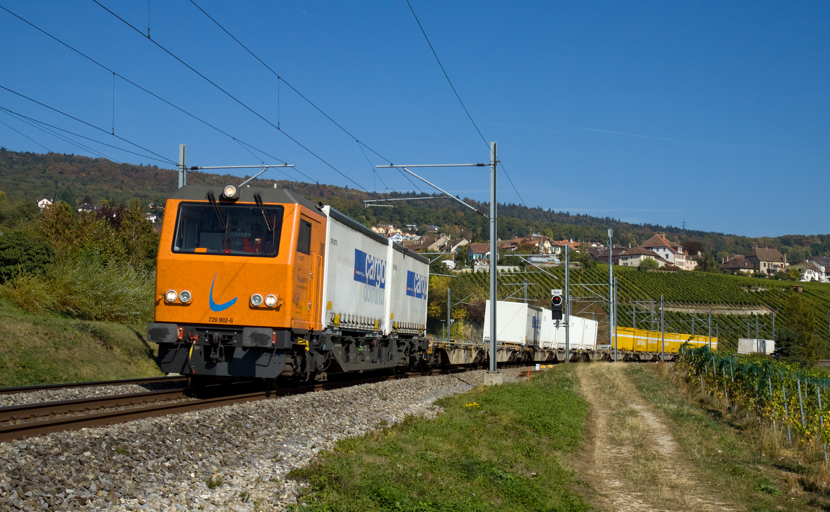 Railogistics Cargo-Pendelzug (Cargo push-pull train) on the Jura foot railway line near Auvernier. The train is hauled by a BLS Re 420.5 (not visible, behind the tree) and the CargoSprinter acts as a control car.